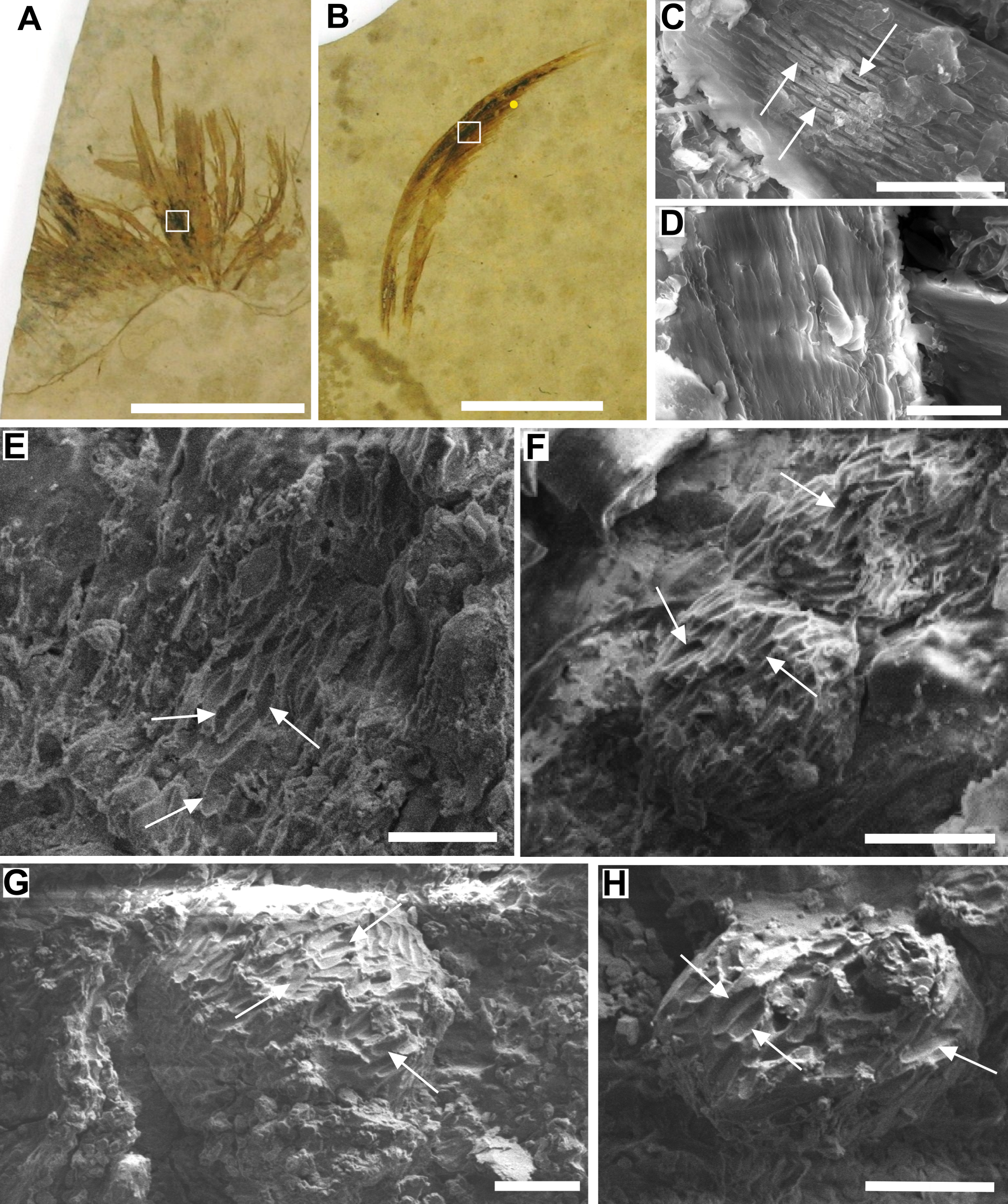 Visual and SEM images showing the presence of melanosomes in Gansus yumenensis and extant feathers. Isolated feathers (A) MGSF318 and (B) MGSF317, with SEM images of the fractured surfaces of (C) an extant Marabou stork feather and (D) a White-naped Crane feather, and the dark areas of MGSF317 (E-F) and MGSF318 (G-H). Eumelanosomes present within the extant Marabou stork feather (C) and the elongate mouldic structures interpreted as eumelanosomes in the fossil feathers (E-H) are highlighted with white arrows. Scale bars represent 2 cm (A-B), 5 µm (C–D) and 2 µm (E–H). The fossil feather SEM images were taken from the areas indicated by the white boxes, and the yellow dot in (B) represents the approximate area where the FTIR map discussed below is taken from.